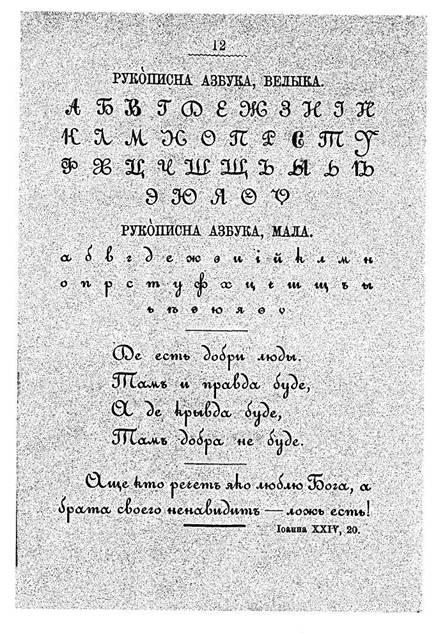 Handwritten alphabets for Ukrainian, in the 19th-century Russian orthography